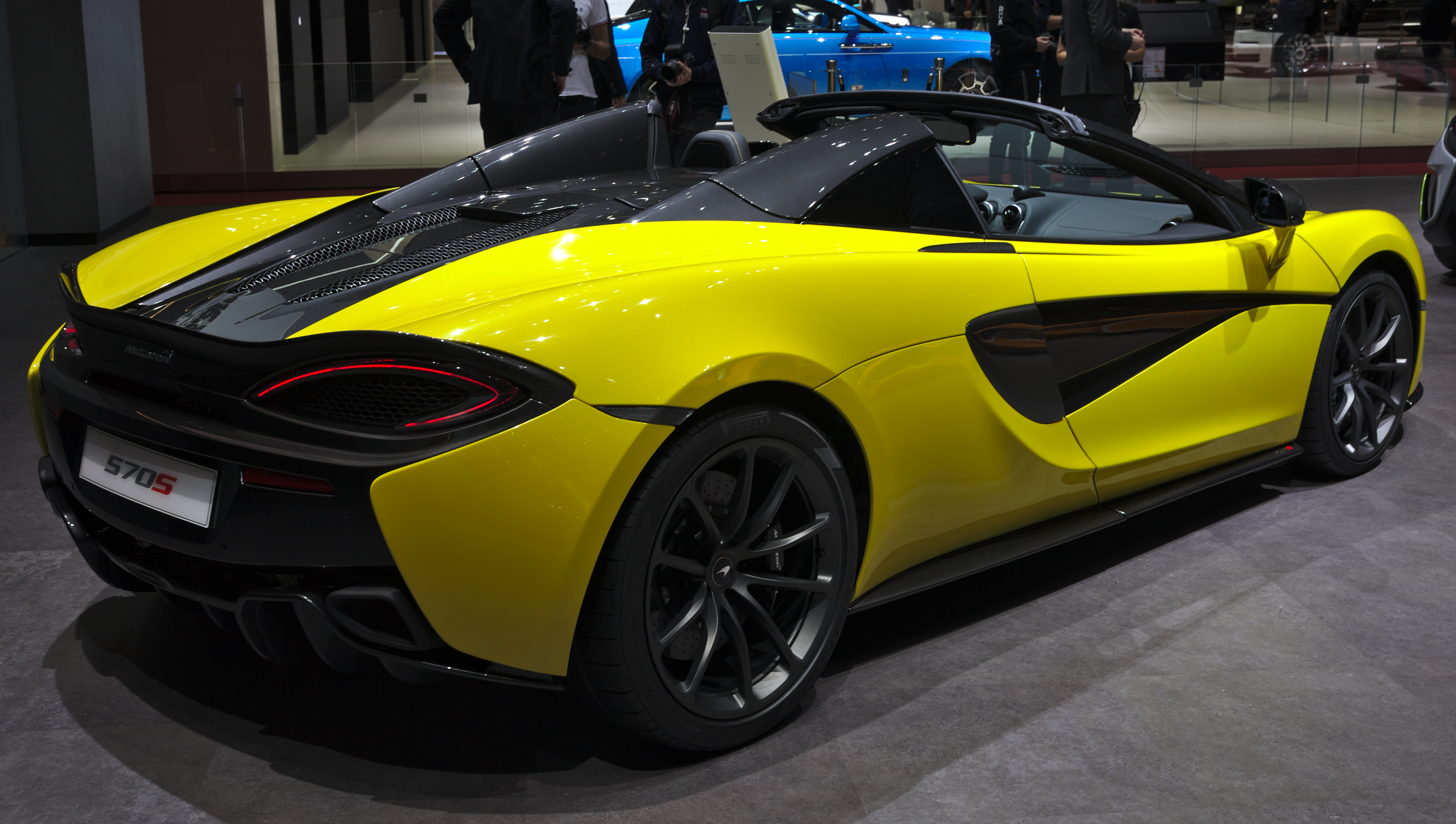 McLaren 570S Spider at Geneva Motor Show 2019